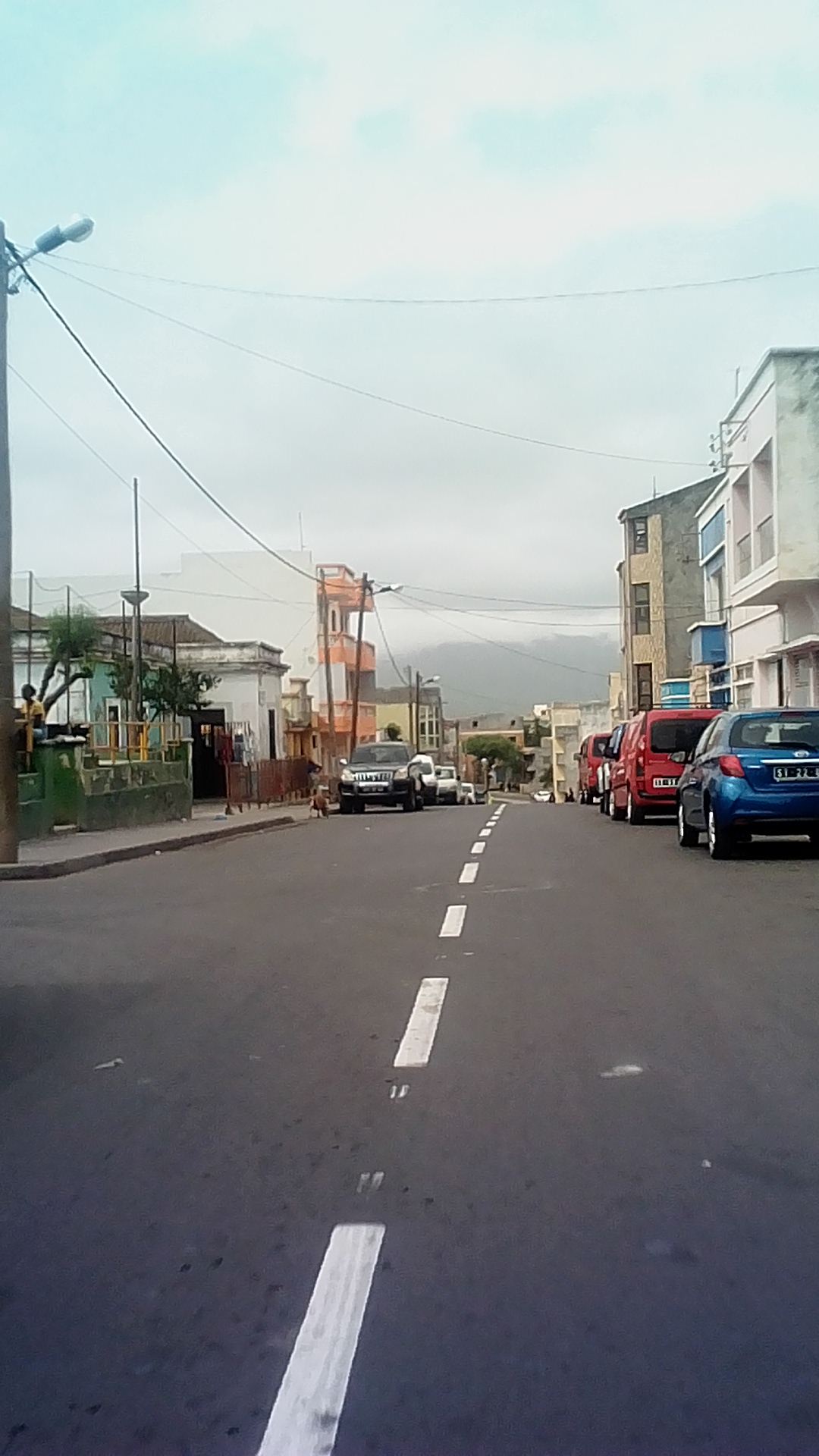 Quarter of Cutelo, Assomada